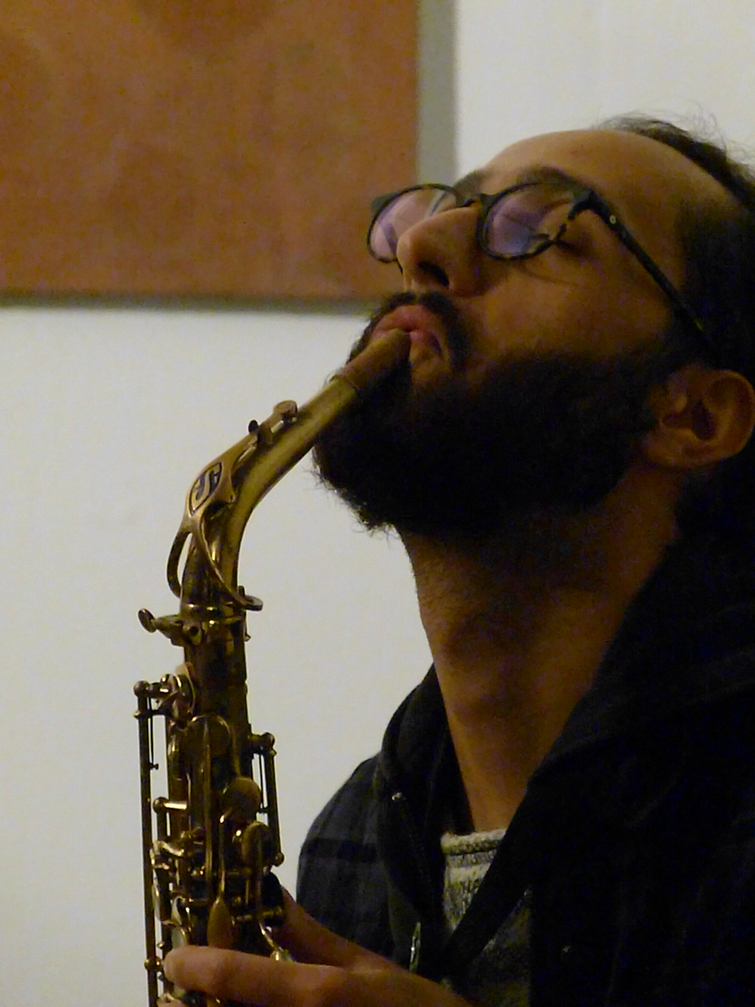 Salim Javaid (s) in the improvising concert "SOUNDTRIP NRW # 41", initiated by Carl Ludwig Hübsch, with Sofia Jernberg (voc) and Philippe Micol (s), October 28th, 2018 at Atelier Dürrenfeld/Geitel (Cologne), Germany